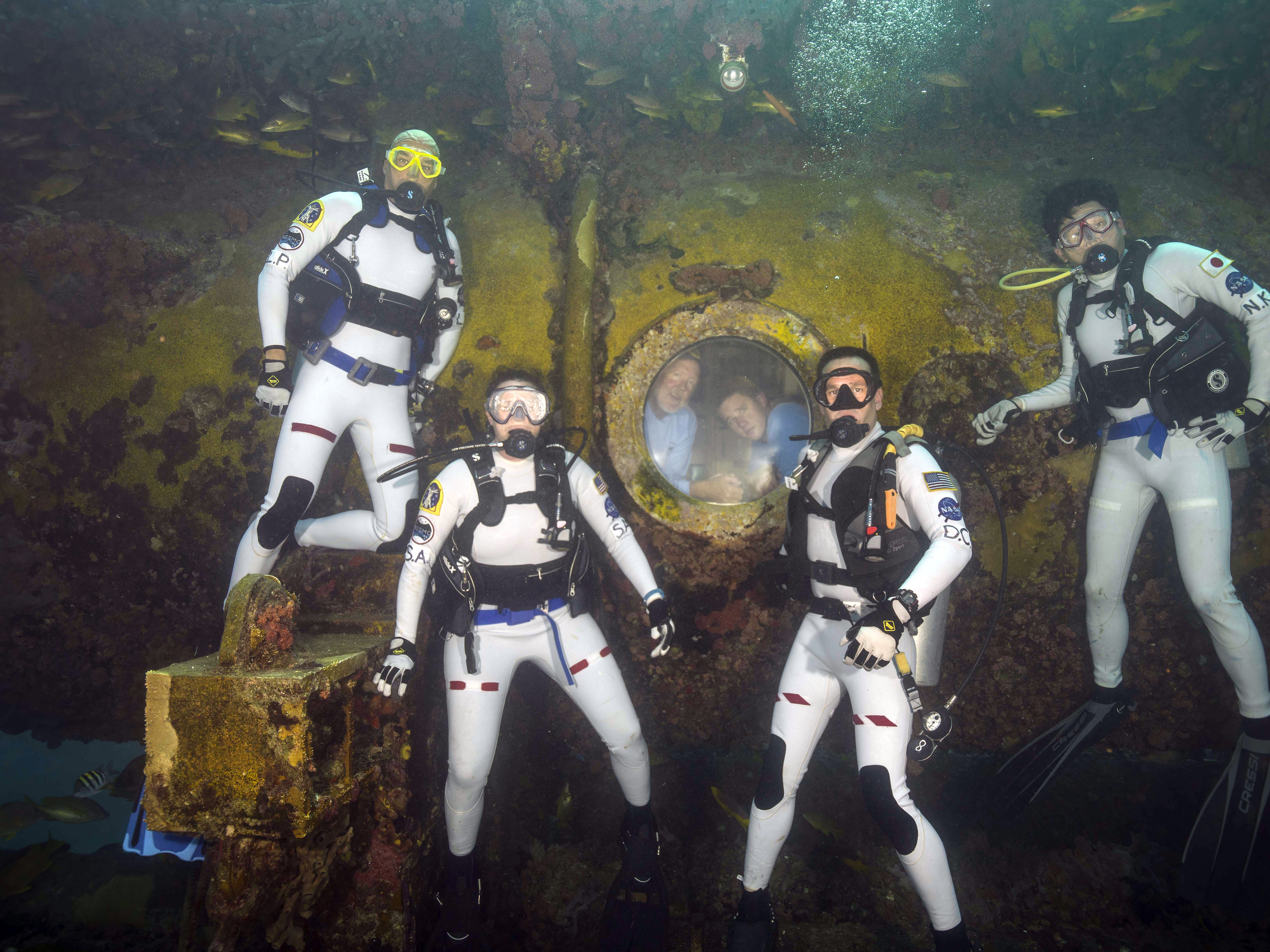 NEEMO 20 Crew (L to R) CDR Luca Parmitano (ESA), Serena Aunon (NASA), David Coan (NASA), Norishige Kanai, (JAXA), inside Aquarius Mark Hulsbeck (FIU) and Sean Moore (FIU)